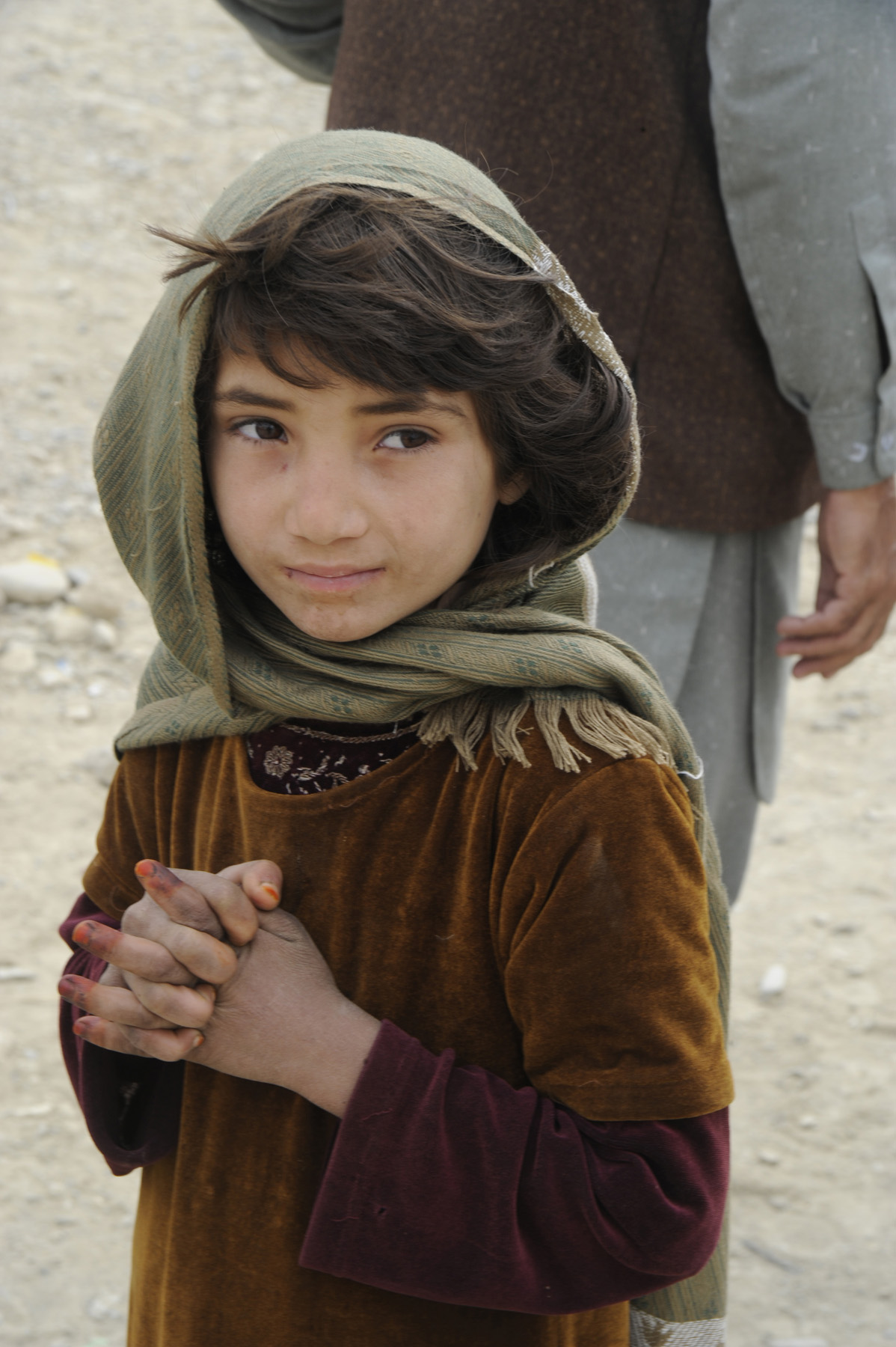 A young girl waits to receive a blanket from Afghan National Police during Khowst Provincial Reconstruction Team’s return visit to an orphanage in Khowst City Feb. 1. The orphans also attended a dental hygiene class given by the PRT medical team. (Photo by U.S. Air Force Master Sgt. Matthew Lohr, Khowst Provincial Reconstruction Team Public Affairs) Combined Joint Task Force 101 Date Taken:02.01.2011 Location:KHOWST PROVINCE, AF Related Photos